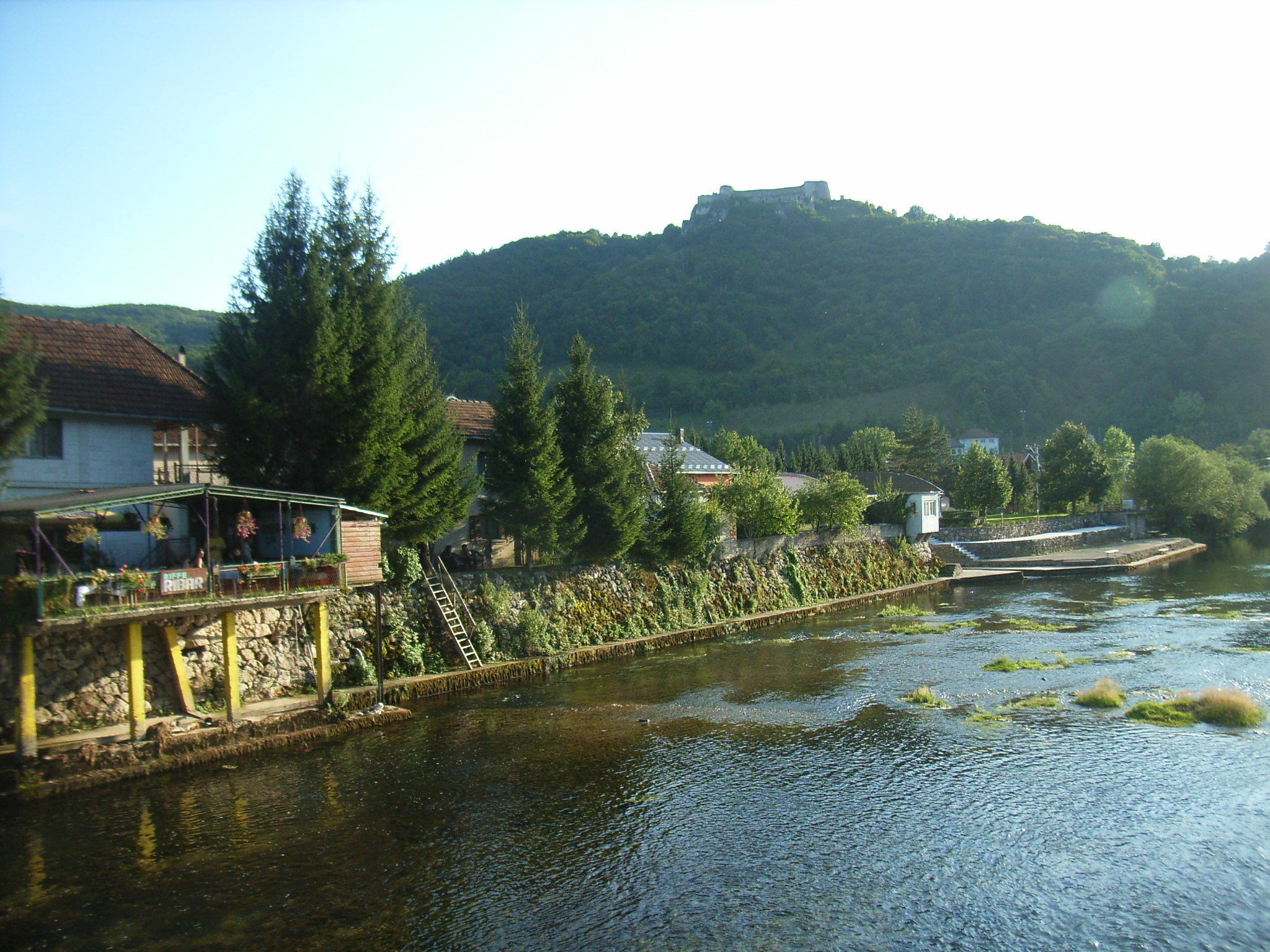 Bosnia, Kulen Vakuf town.